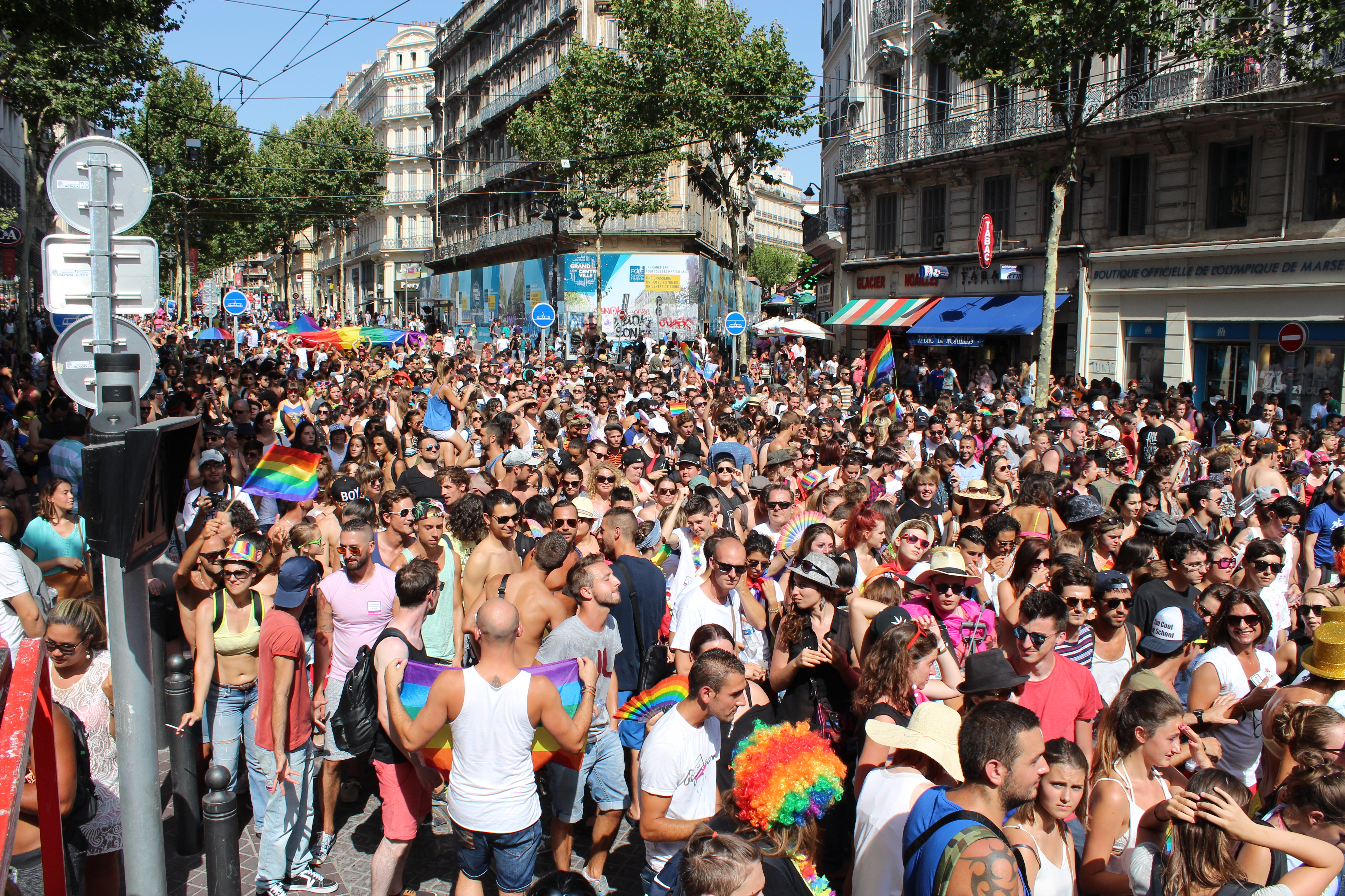 Pride Marseille, July 4, 2015. Photo by Lee Bob Black.